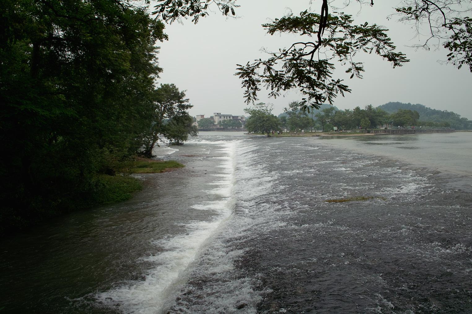 Lingqu Canal 中文（中国大陆）: 灵渠